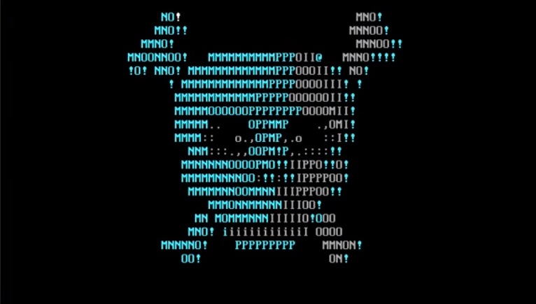 Payload screen of Bones trojan in MS-DOS.